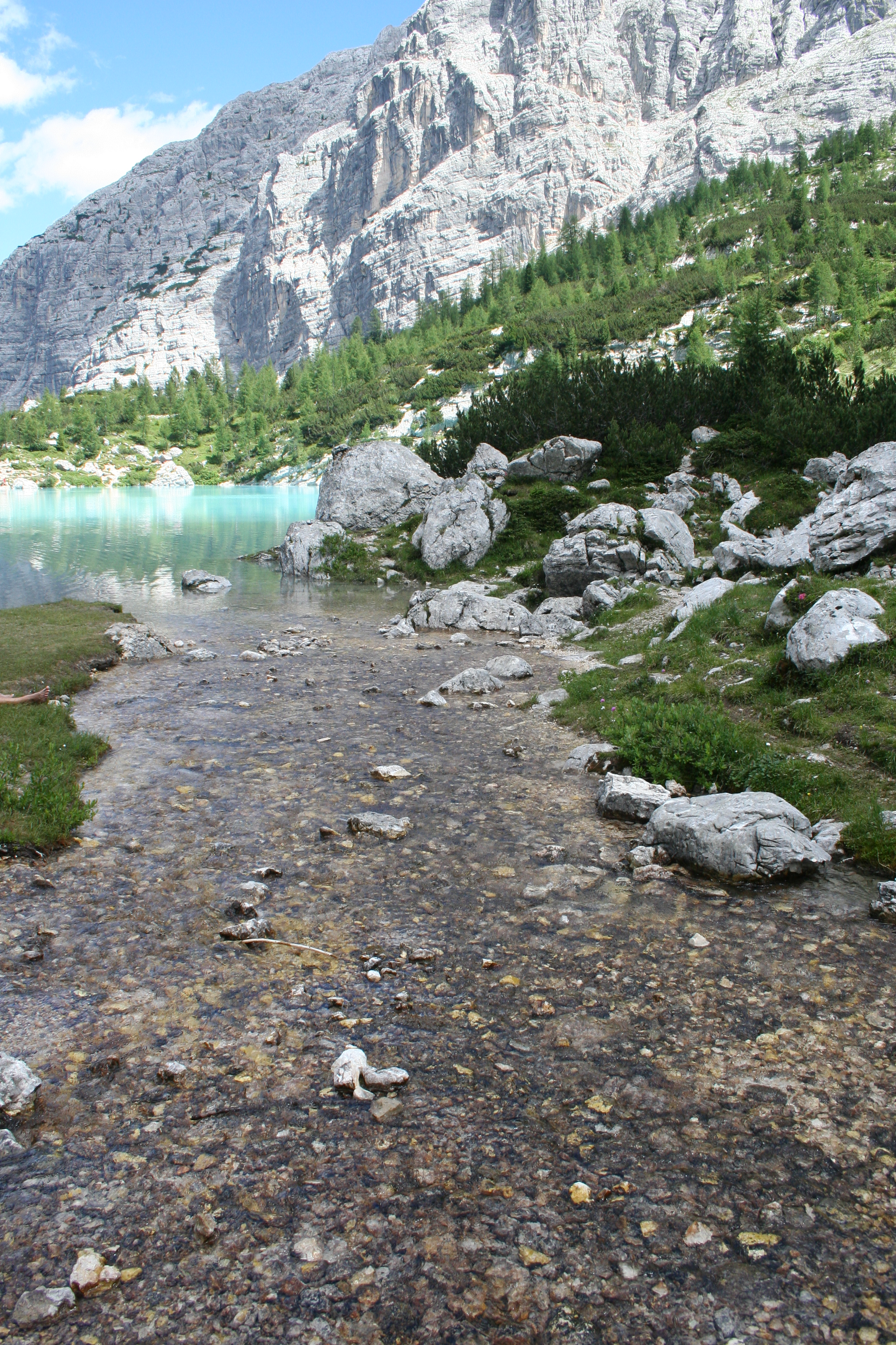 Mountain rapid entering Sorapiss Lake, photo taken 2013-07-31.